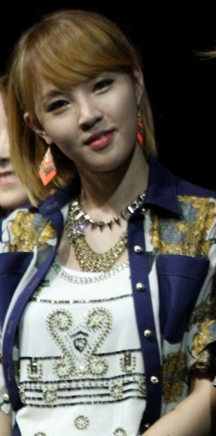 4Minute performing in July 2012